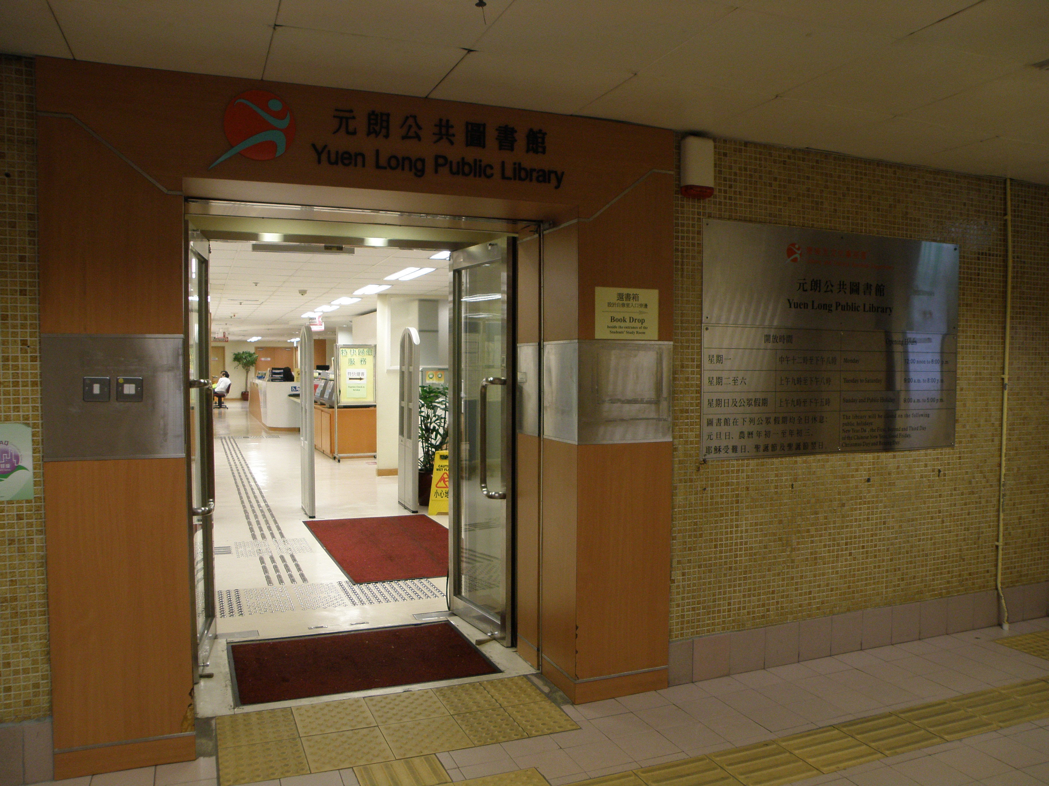 Yuen Long Public Library in Yuen Long, Hong Kong.